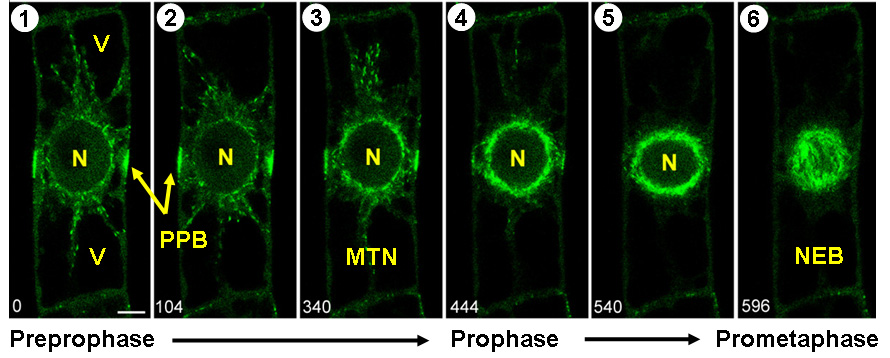 Microtubule dynamics during preprophase and prophase in plant cell mitosis. The images follow a tobacco BY-2 cell through the first stages of mitosis. N = Nucleus, V = Vacuole, PPB = Preprophase band, MTN = Microtubule nucleation, NEB = Nuclear envelope breakdown. The growing ends of microtubules are shown in green (labeled with green fluorescent protein fused to the microtubule plus end binding protein EB1 of Arabidopsis thaliana). 1) and 2): The preprophase band is visible at the cell wall. 3) Microtubles start nucleating at the nuclear envelope. 4) The preprophase band starts to disappear. 5) Microtubules around the nucleus form the prophase spindle. 6) The nuclear envelope breaks down and the spindle microtubules occupy the nuclear space. Also see the movie corresponding to this figure. The movie is accelerated 100 times. The real time is 12 min.